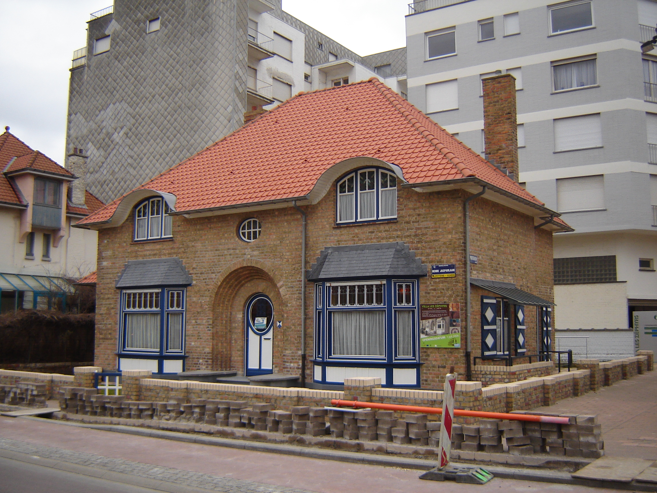 Villa "Les Zéphirs" in Westende. Westende, Middelkerke, West Flanders, Belgium